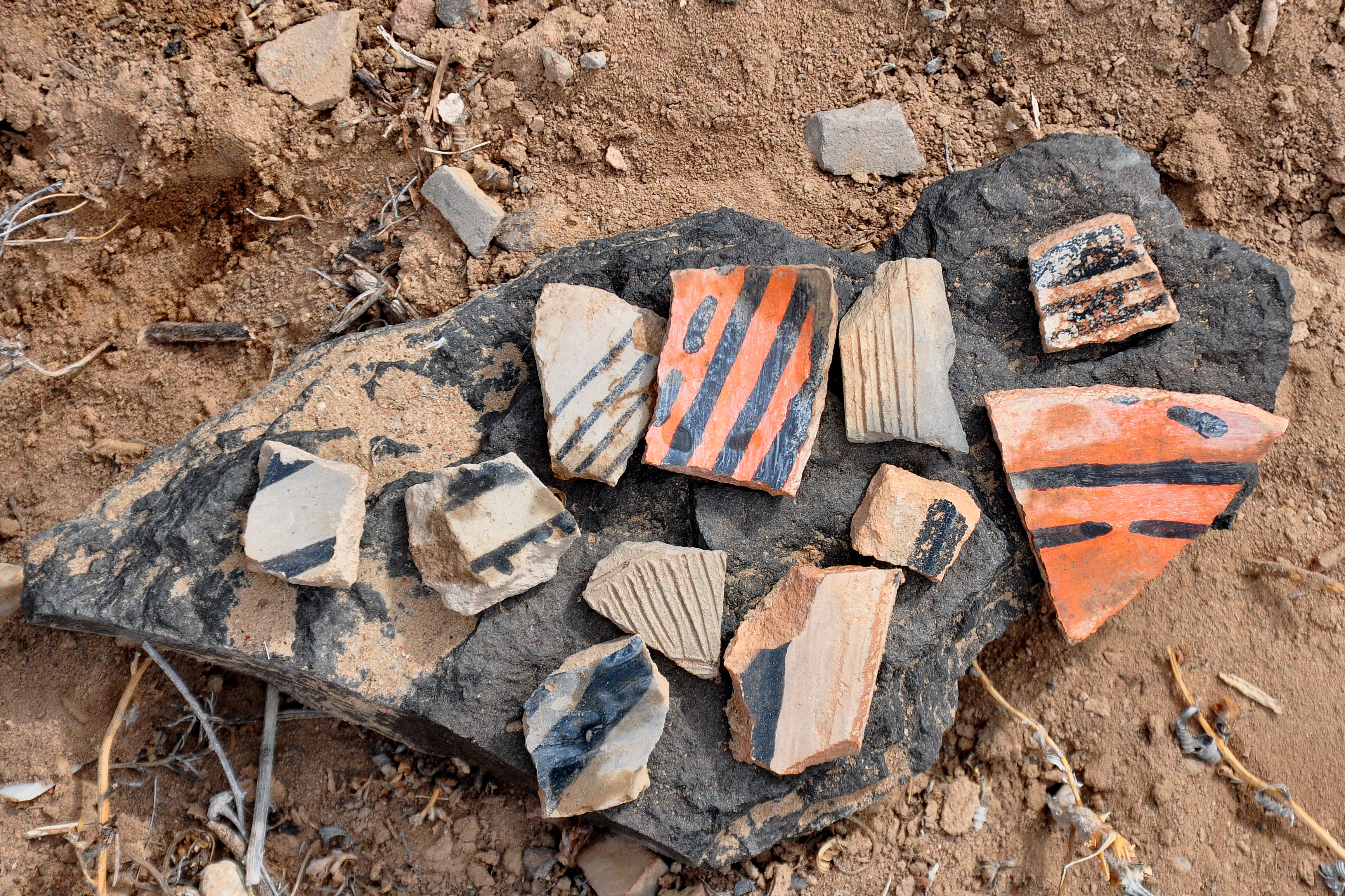 Potsherds from Poshuouinge, a large ancestral Pueblo ruin on U.S. Route 84, south of Abiquiu, New Mexico, USA.